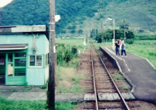 Meitetsu Tanigumi line Nagase station (2001)